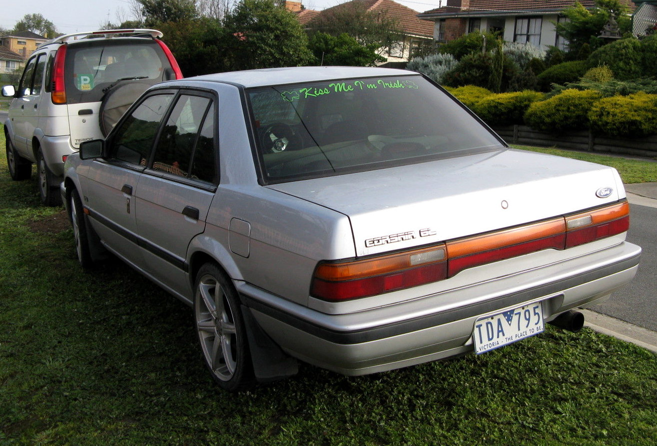 1989–1992 Ford Corsair (UA) GL sedan. Photographed in Morwell, Victoria, Australia.